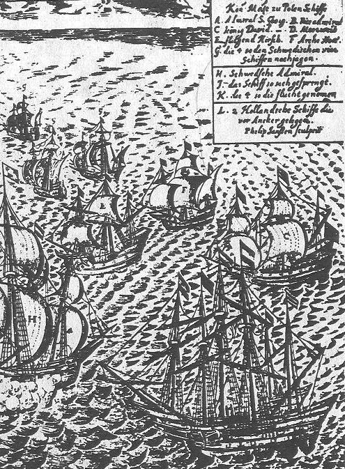 The Polish warship King David (Król Dawid, König David) - marked with "C" among others in the Naval battle of Oliwa (1627)